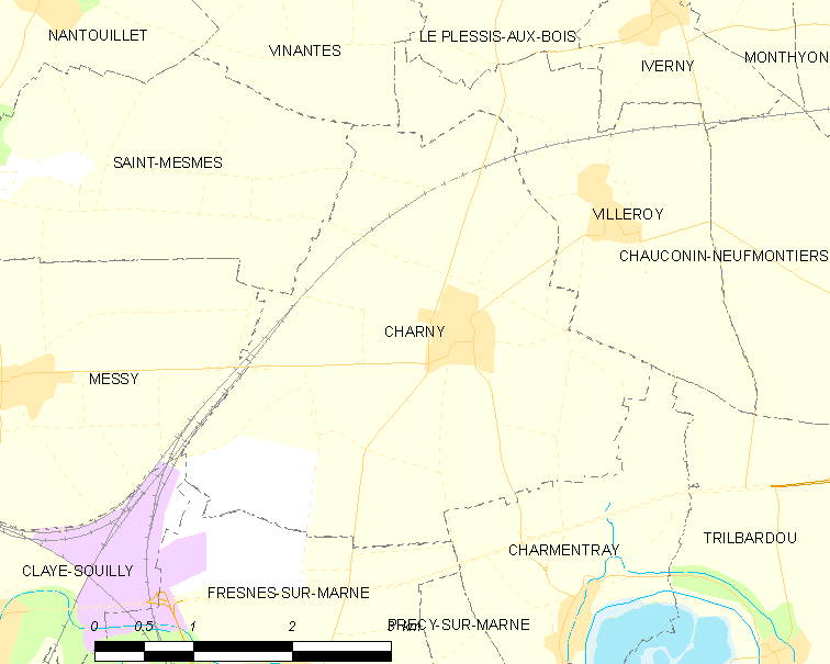 Map of French municipality Charny